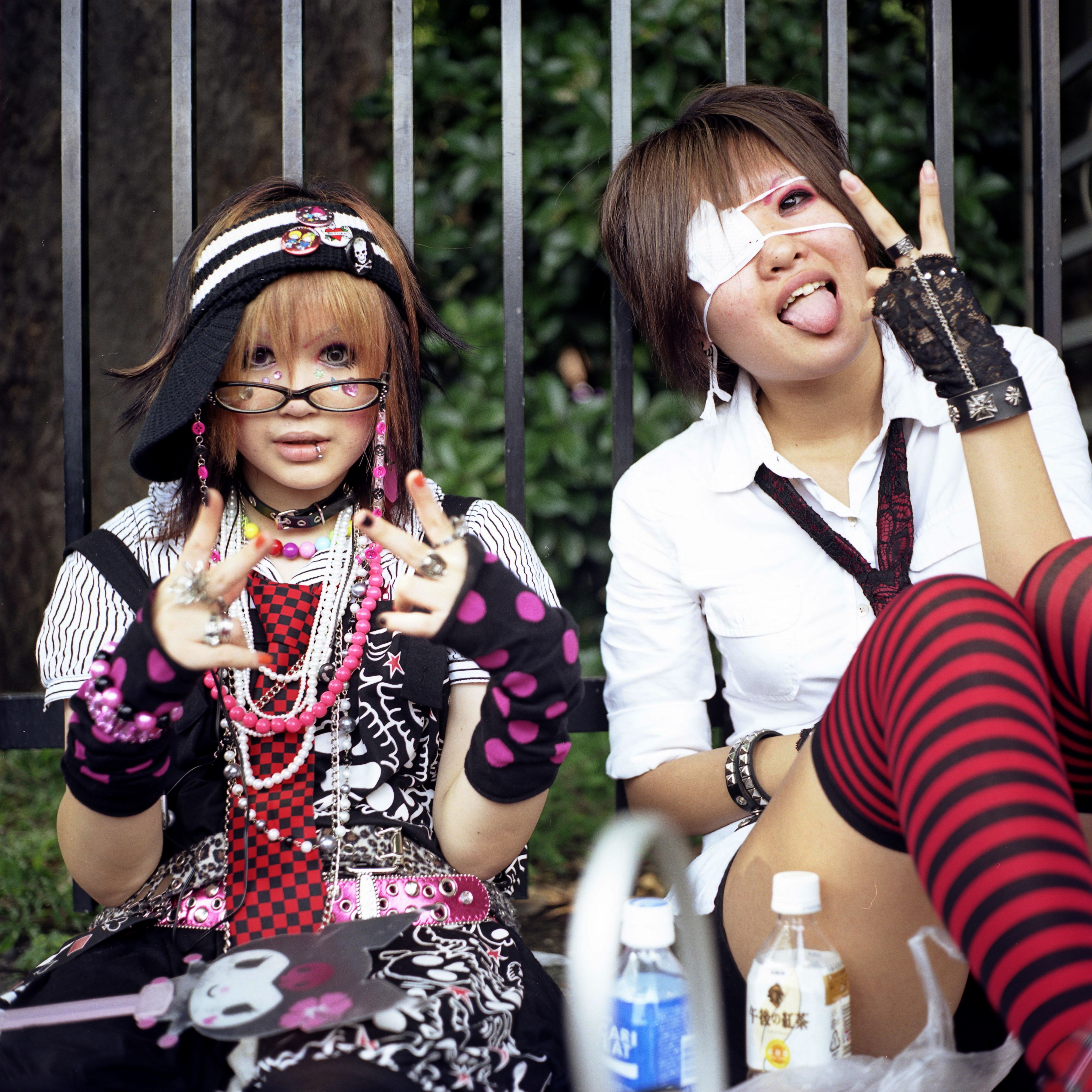 Aug 06 Harajuku, Japan Taken with the Yashica Mat 124 G